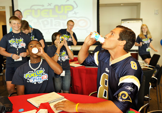 St. Louis Rams quarterback Sam Bradford challenges Fuel Up to Play 60 participants to a milk drinking competition during the Student Ambassador Summit in Washington, D.C. (Photo Courtesy of )